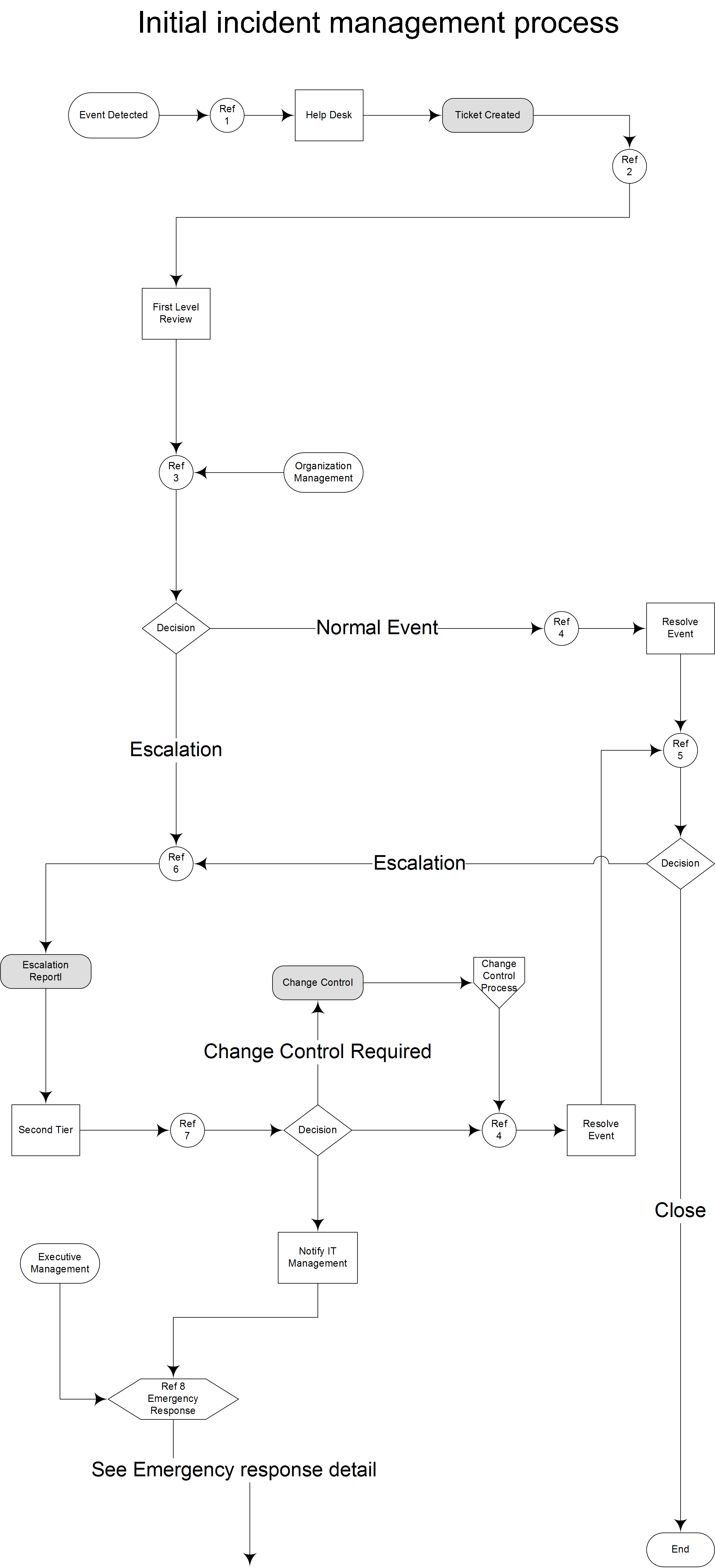 simple block diagram for an initial computer incident response process